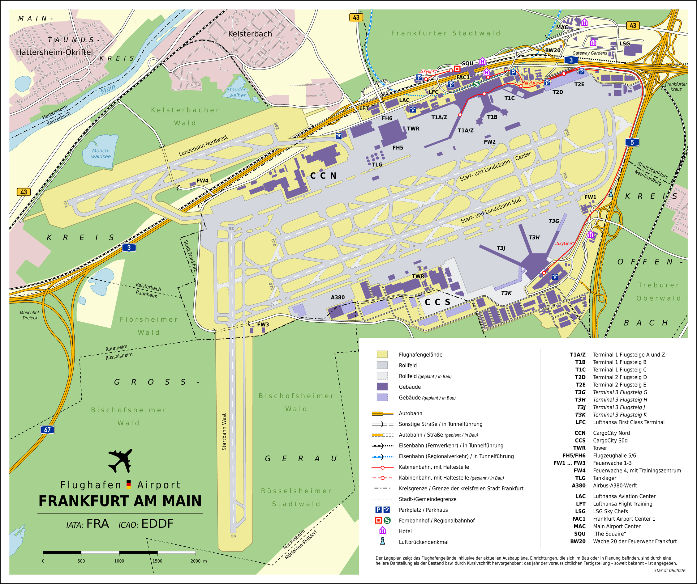 Map of Frankfurt Airport, Germany (DE)